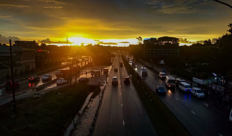 The The Southern Sun Touches the EAST ROAD This is an image with the theme "Africa on the Move or Transport" from: Zambia